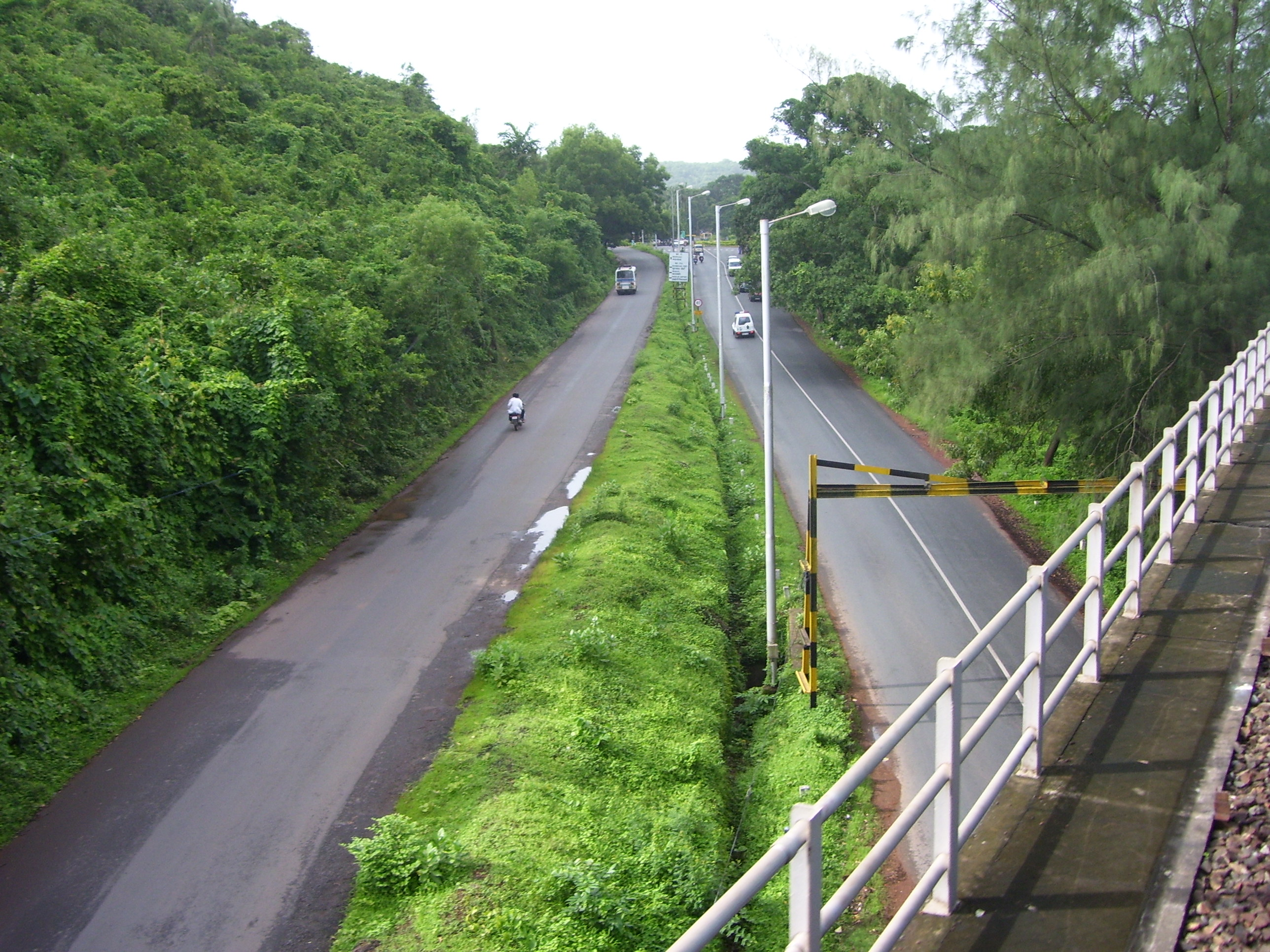 National Highway 66 (old NH-17) at Goa, shot from railway overbridge.